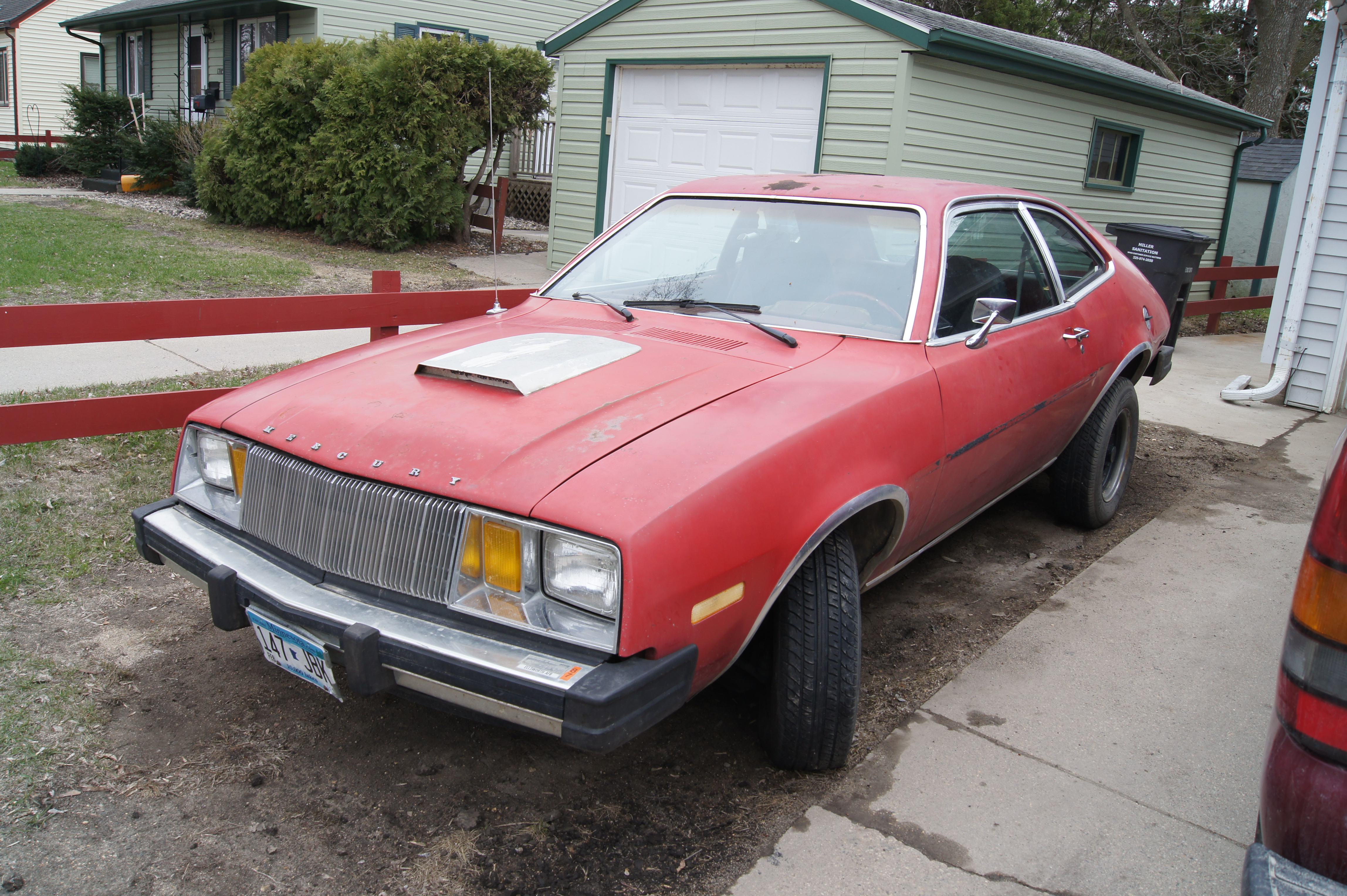 80 Mercury Bobcat